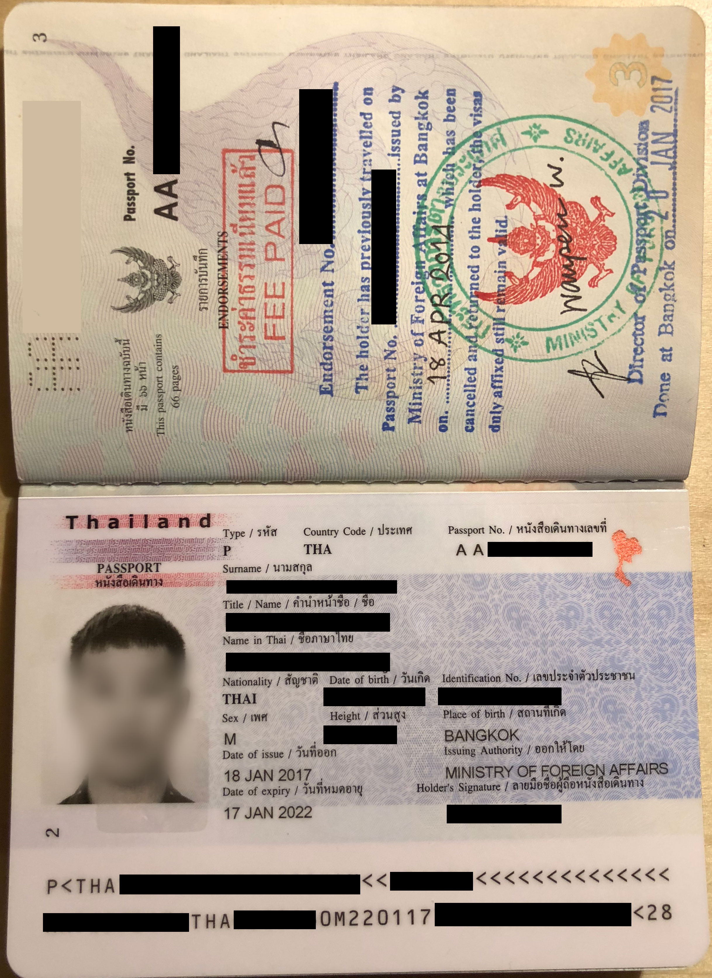 The data page of the latest version of the Thai biometric passport with endorsement on page 3